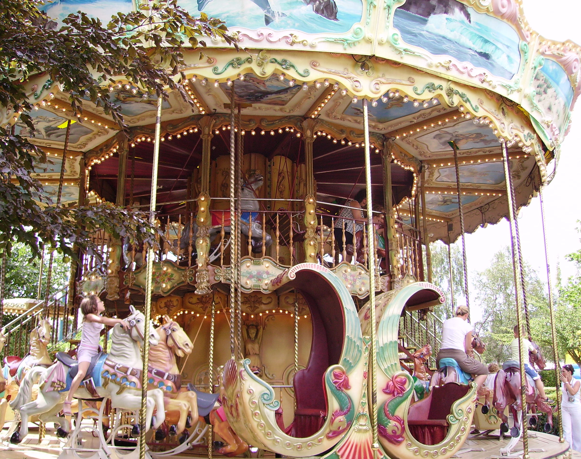 Boudewijnpark near Brugge, Belgium